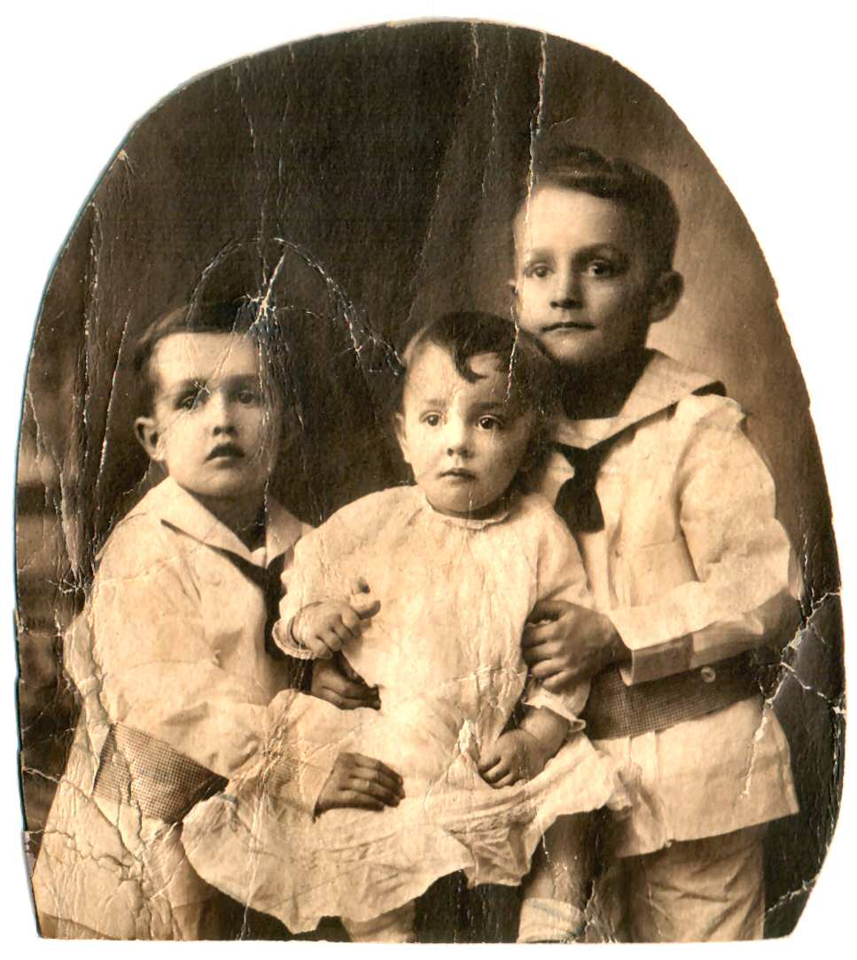 The Masters Bros - (R-L) James, youngest William (Bill), John (Bud) - 2 Marine Generals out of 3